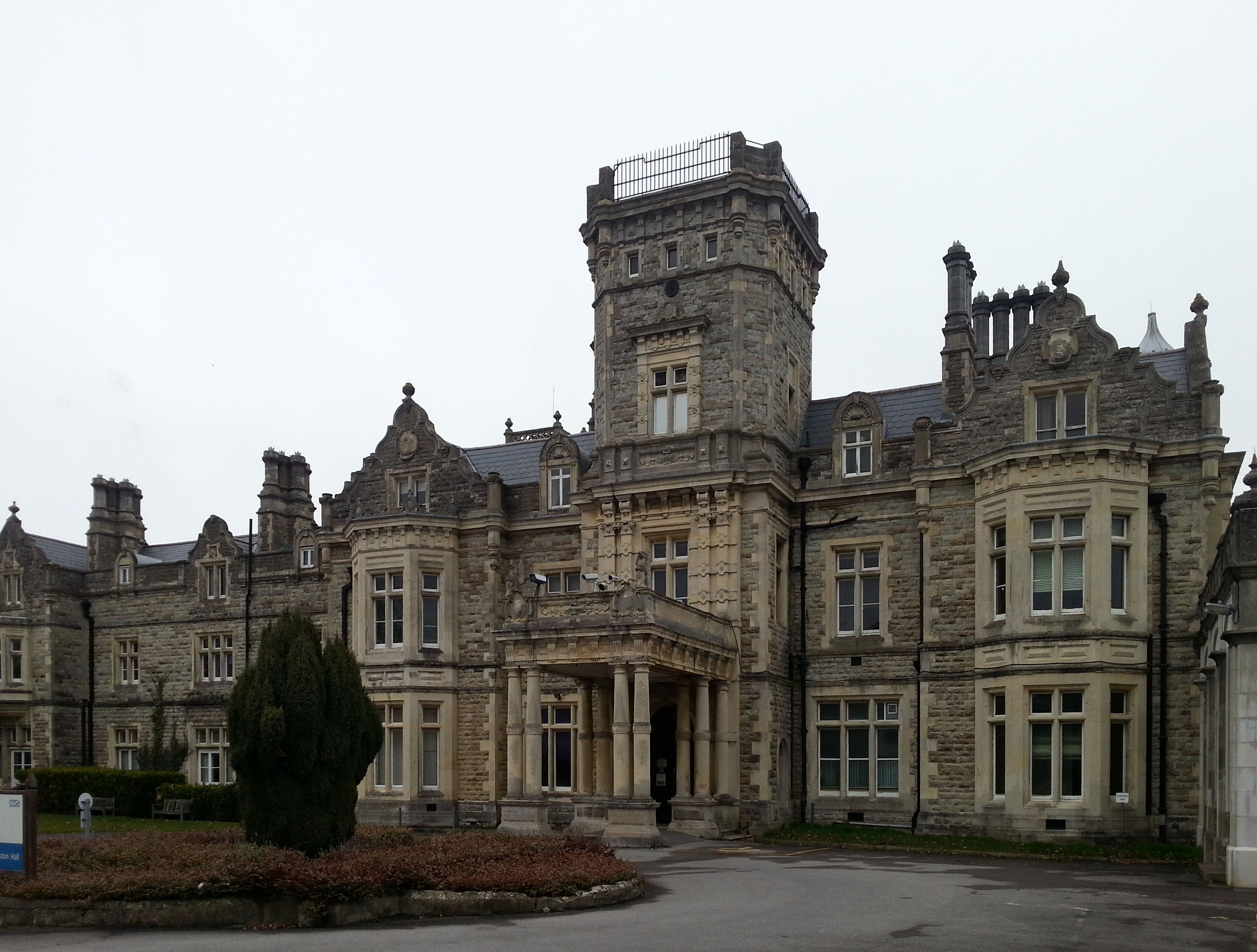 A recent photo of the front elevation of Preston Hall, Alyesford, Kent, UK.